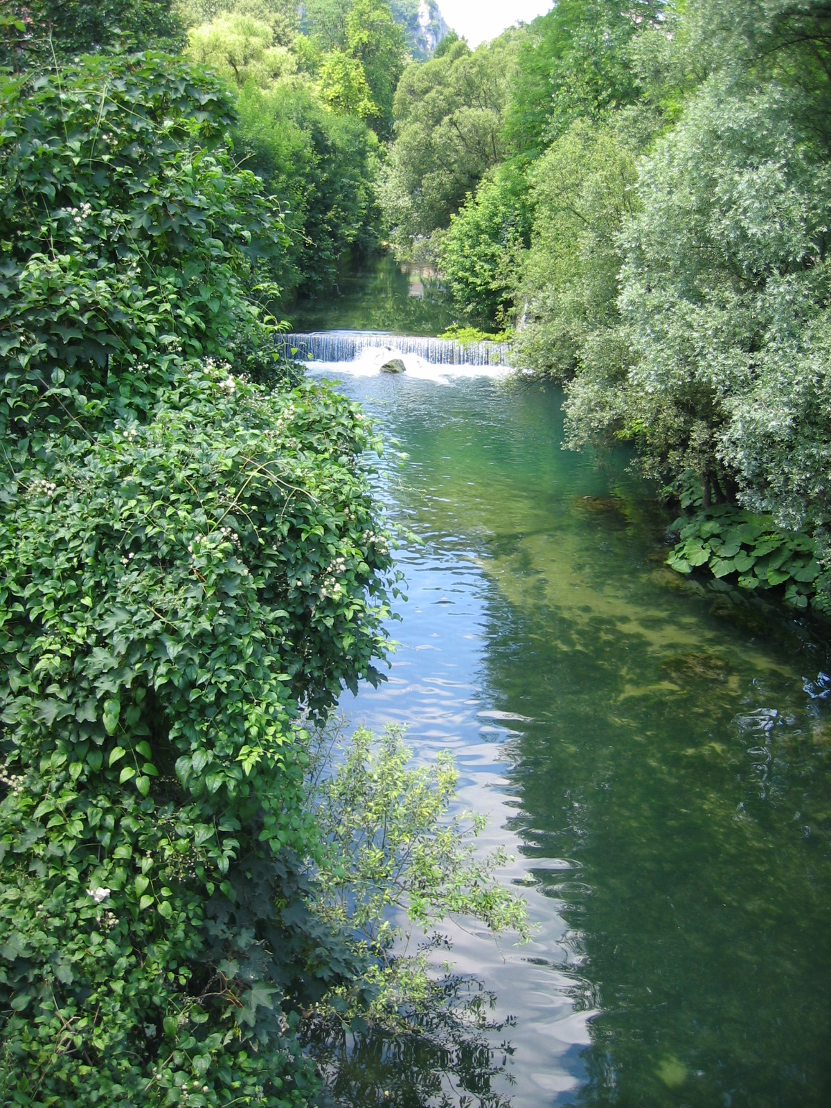 River Pliva some 100 m upstream from the waterfall. The riverbed itself looks green from some algae and also the surrounding green nature reflects and makes the water look green. The water is clean enough to see fish and worms in the river. Fishing is forbidden because it flows through a nature park. I took this picture summer 2005 and hereby release it under GFDL licence.